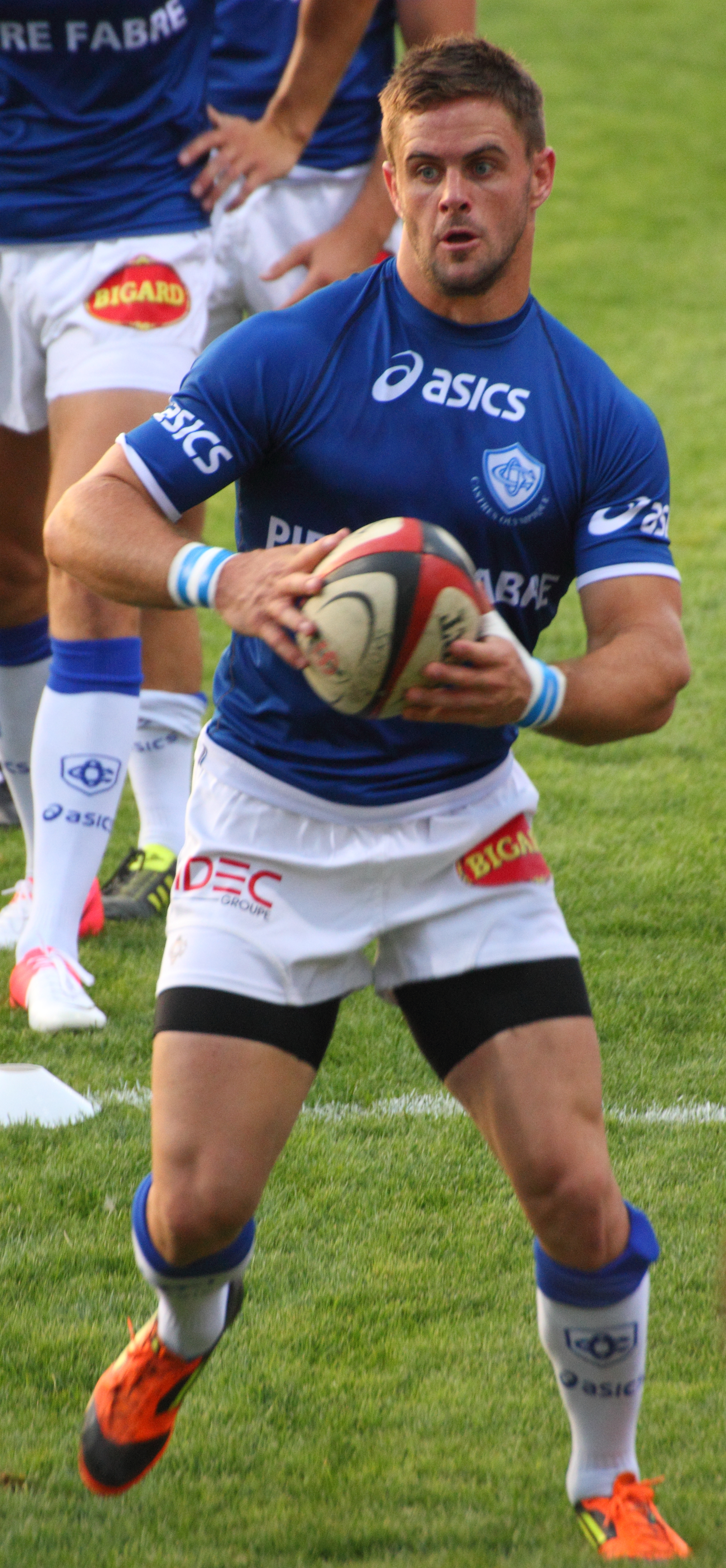 Top 14 — 17 August 2012, Stade Ernest-Wallon. Match between: Stade toulousain — Castres olympique